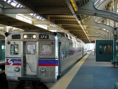 Silverliner IV train at 30th Street Station